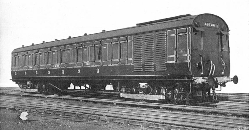 Motor-Coach of Multiple-Unit Electric Train, LMS Photo: LMS Note the 3rd rail pickup and Acton headboard. This stock was in use on the North London Line - ie Euston-Watford, Broad Street-Watford and Broad Street-Richmond services. This is an example of the LMS-built compartment stock, which tended to appear mostly on Watford services in the post-war period; Broad Street to Richmond was almost entirely operated by LNWR-built Oerlikon stock